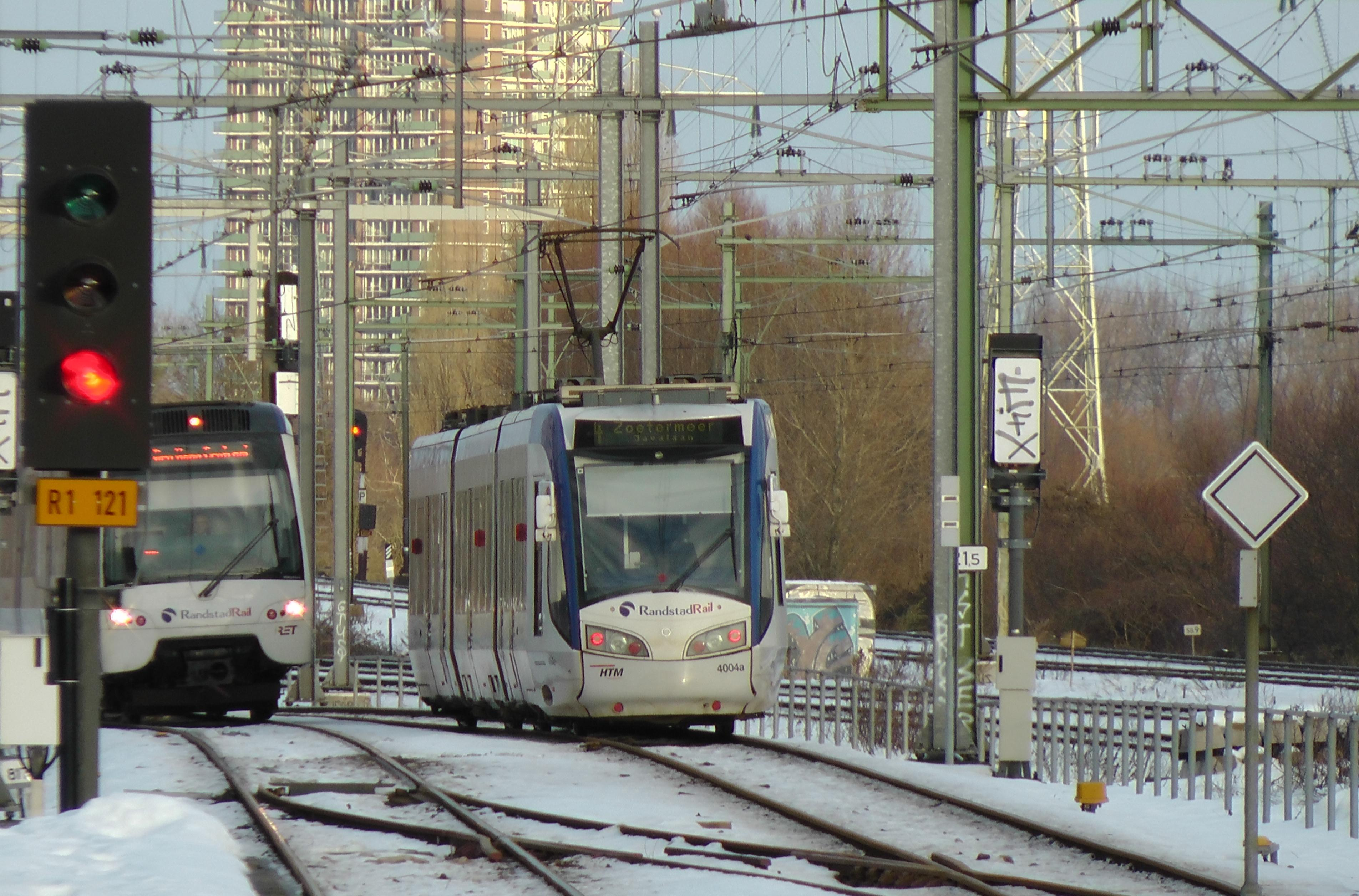 RandstadRail 4 and E near Station Den Haag Laan van NOI, The Netherlands.